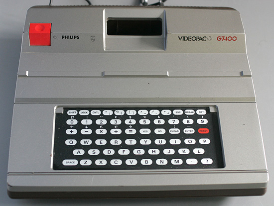 Photo of a Philips Videopac+ G7400 video game computer Photo taken by Marco van den Hout on 2004-08-27